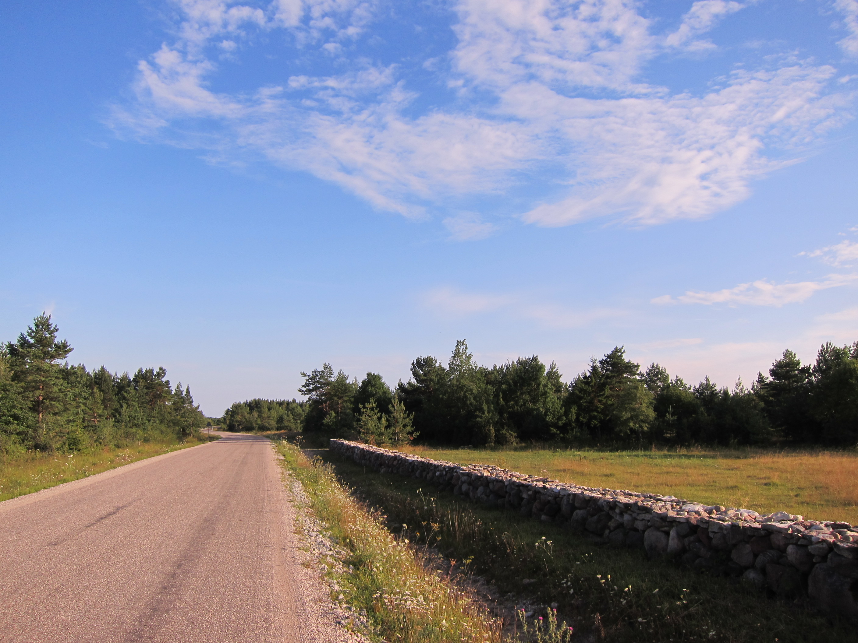 Section of the road on Western Saaremaa between the villages of Lümanda and Kotlandi.